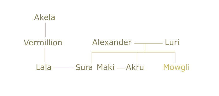 Jungle Book Shonen Family Tree